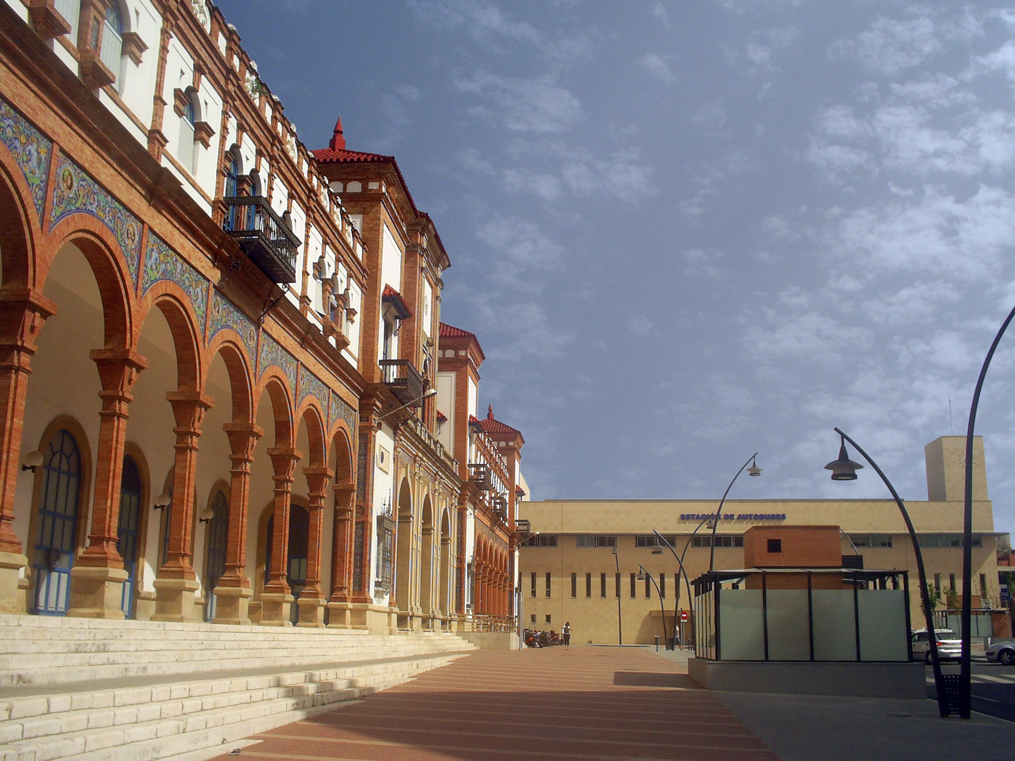 Jerez Railway Station (left), at background Central Bus Station, Jerez, Andalusia, Spain.